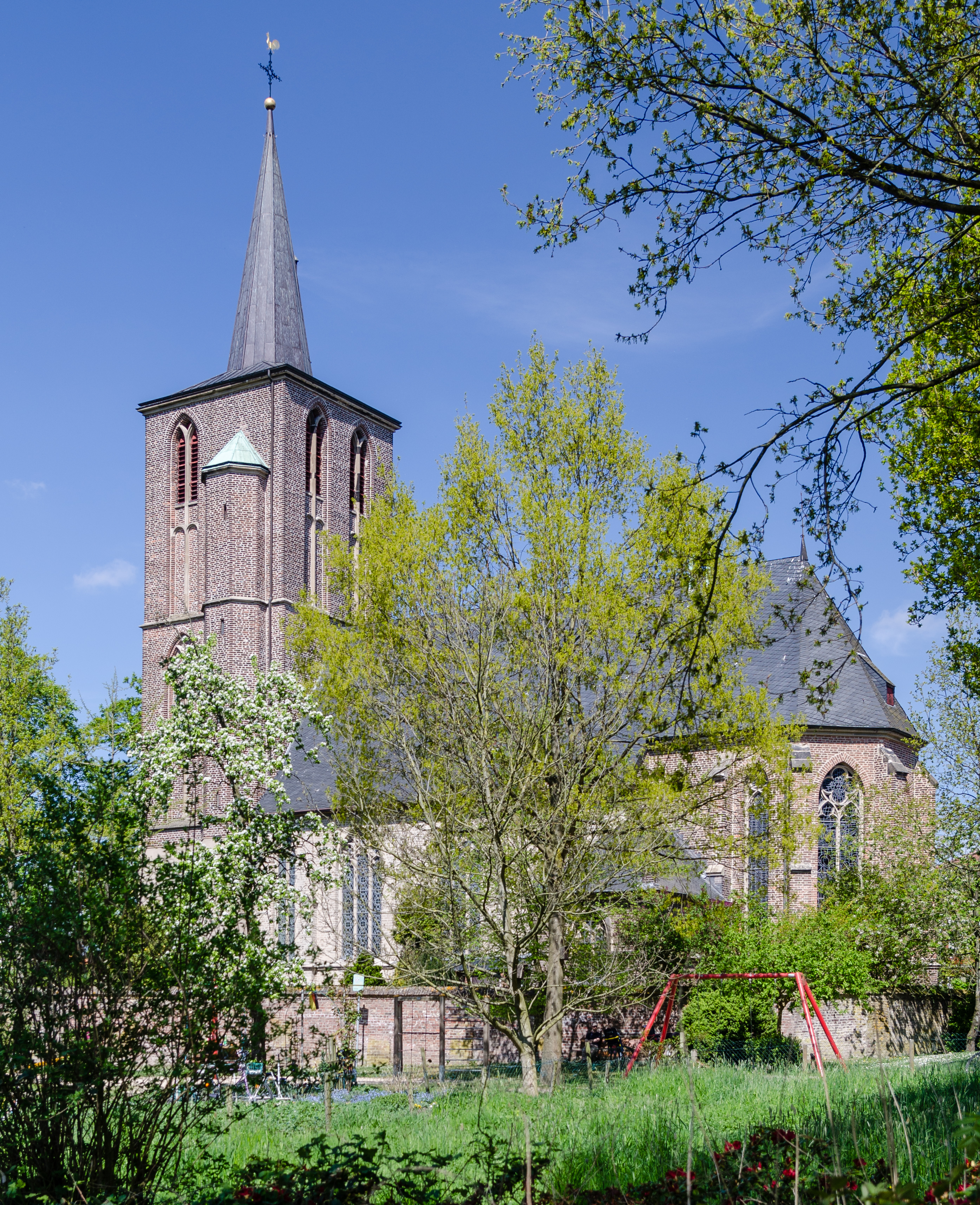 Church Saint Peter Born in Born (district of Brüggen)This is a photograph of an architectural monument.